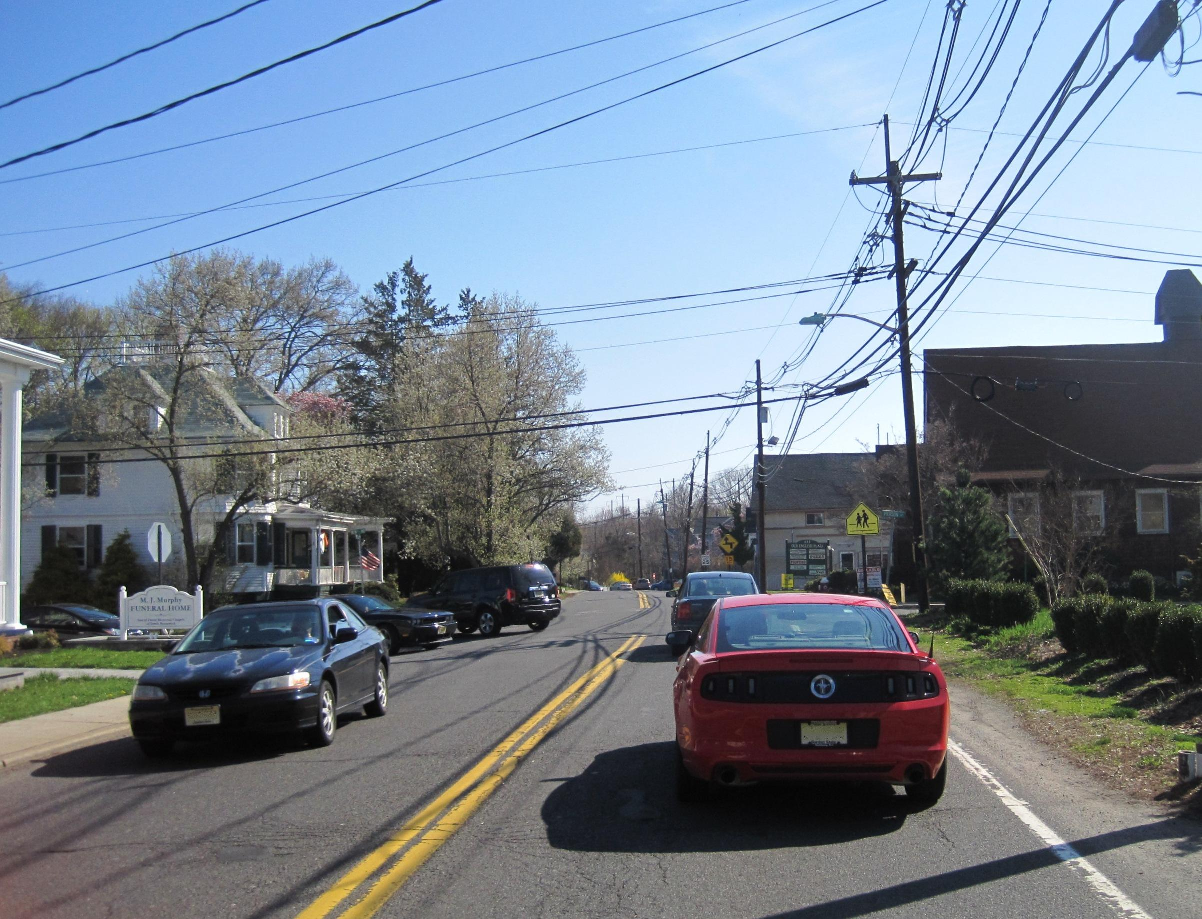 Photo of the census designated place of Monmouth Junction, New Jersey, a community within South Brunswick. Photo taken along eastbound Ridge Road at New Road.